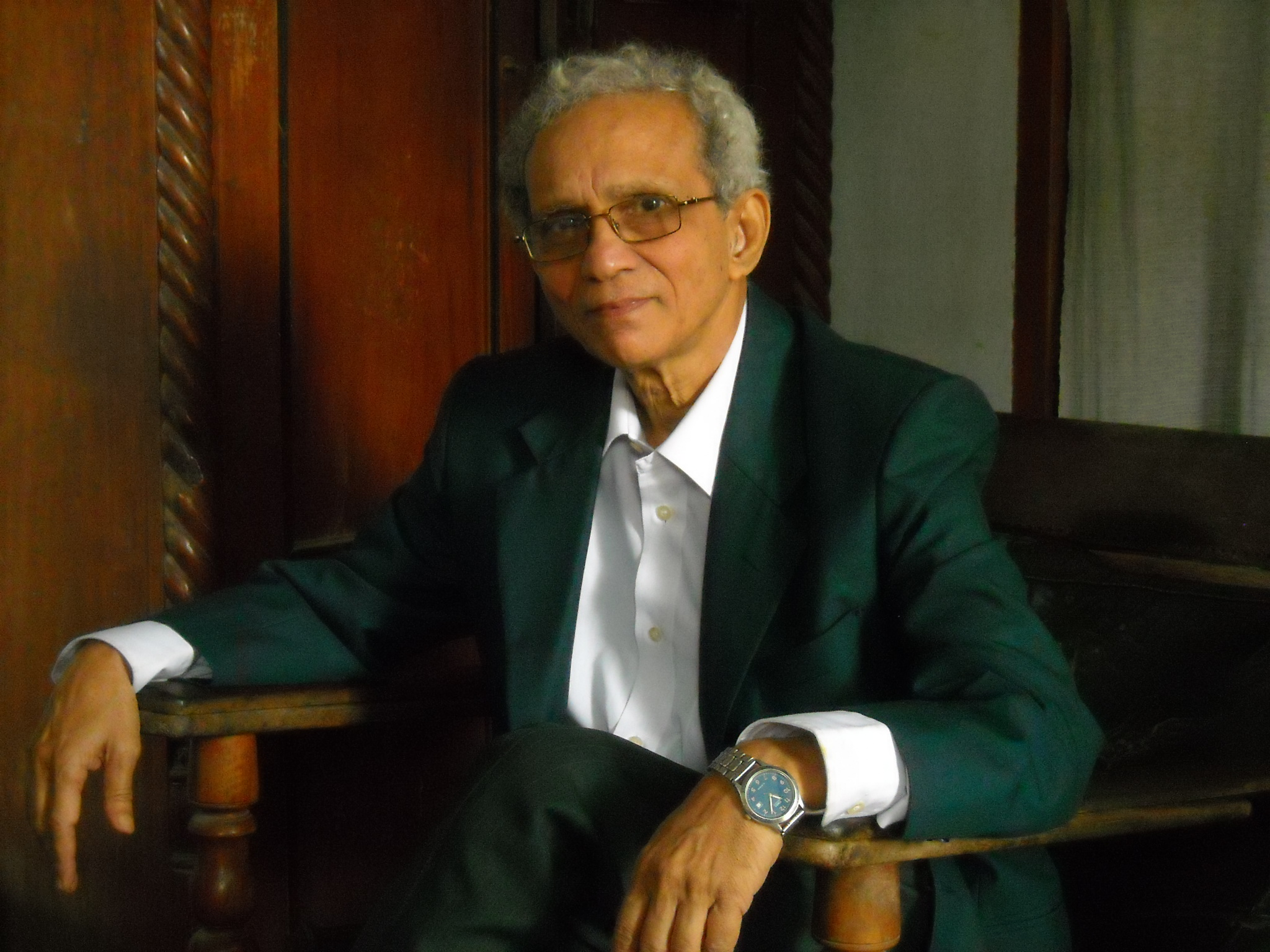 Prof. Dipan Ghosh, IIT Bombay